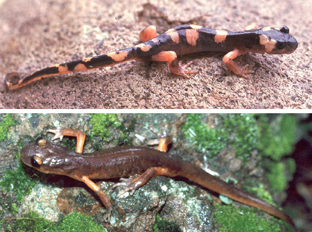 A large blotched ensatina (Ensatina eschscholtzii klauberi, top) and a Monterey ensatina (E. e. eschscholtzii, below), populations of the same species that do not interbreed, but grade into other populations of the same species, forming a ring species. From the files File:Ensatina eschscholtzii klauberi.jpg and File:Ensatina eschscholtzii e.jpg, both public domain files.